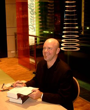 This is a photo of Tad Williams taken during a signing after a reading in Cologne, Germany in October 2004.